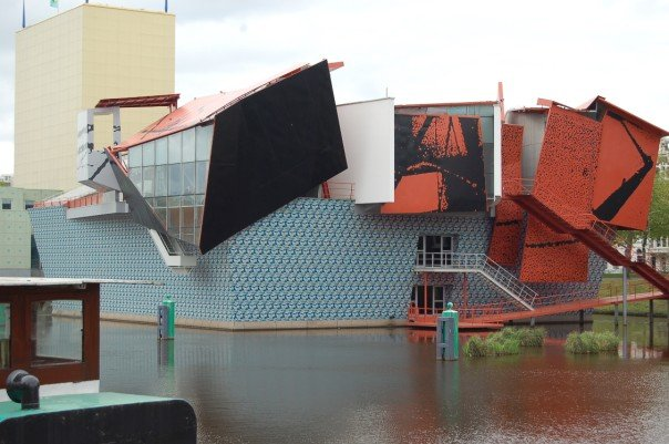 Building in Groningen